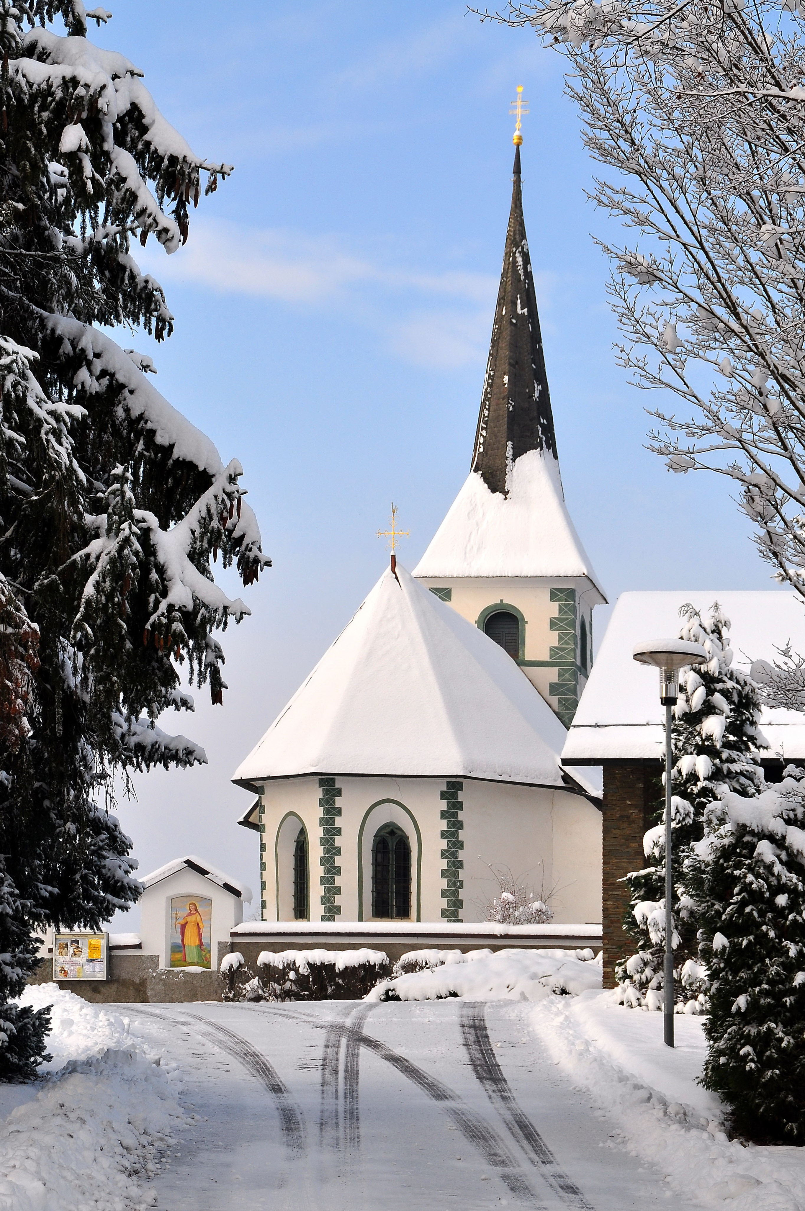 Subsidiary church Saint Margaretha in the 15th district "Hoertendorf" of Carinthia`s capital Klagenfurt, Carinthia, Austria